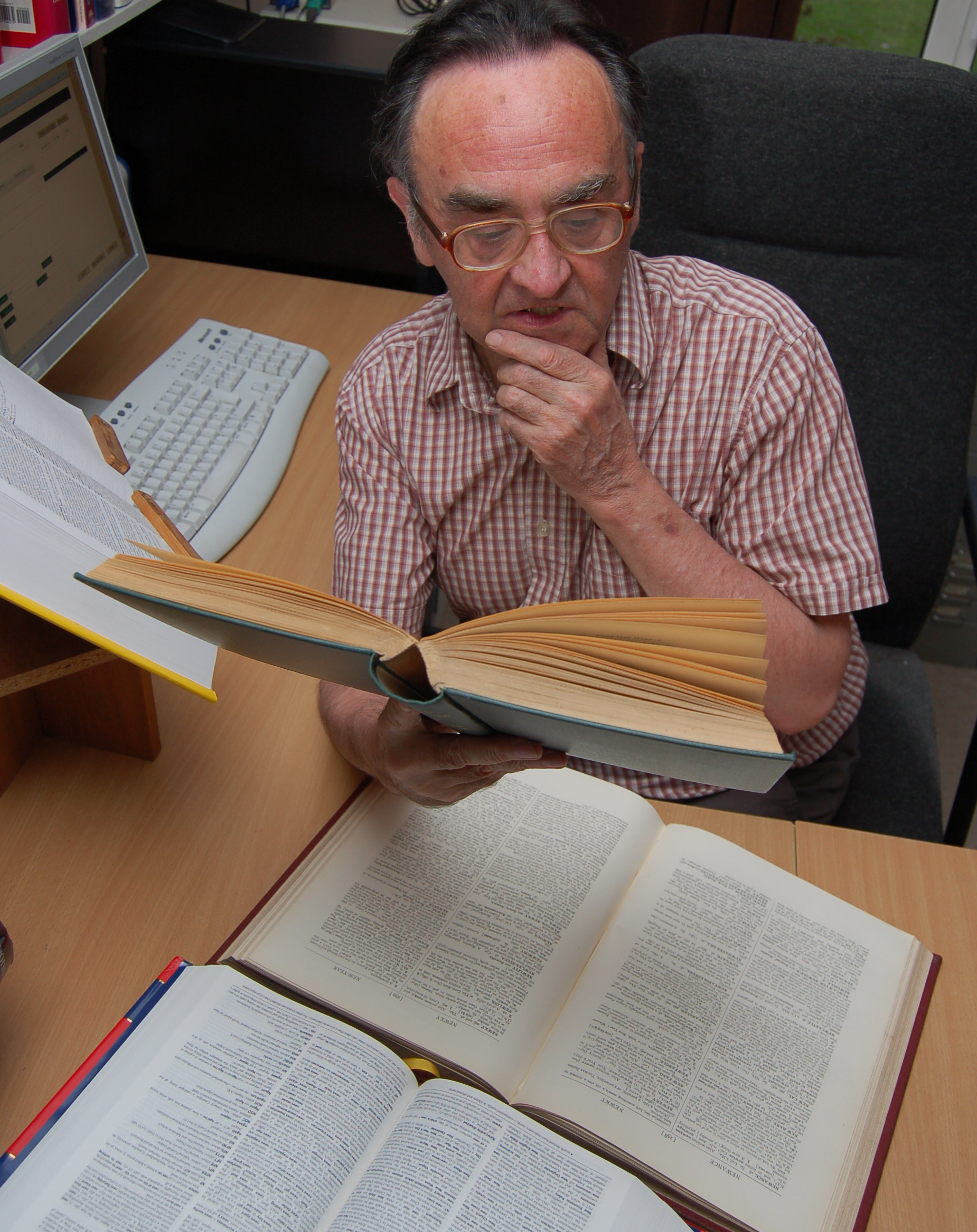 Michael Quinion, etymologist and owner of the linguistics website World Wide Words, at his desk in his office.